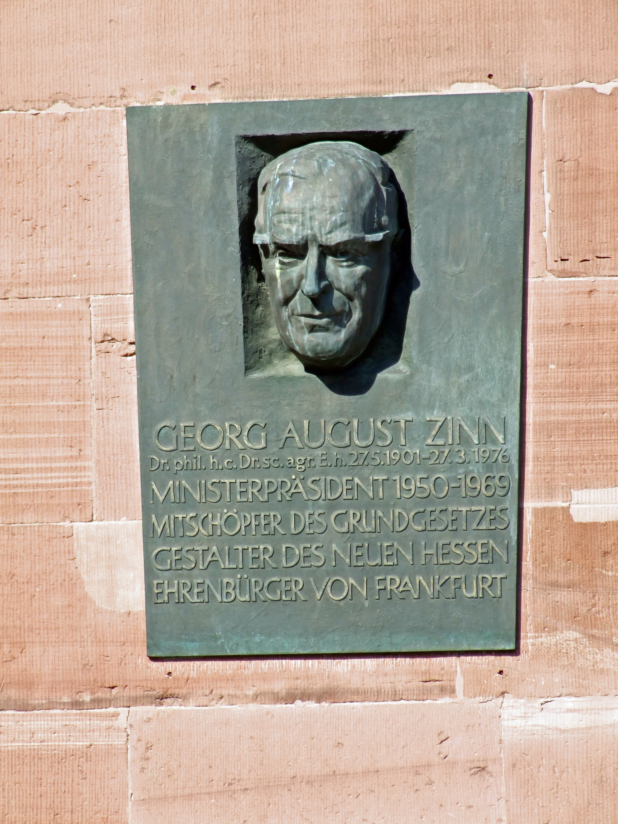 commemorative plaque of the prime minister of Hesse (1950-1969), Georg-August Zinn, outside of Paulskirche in Frankfurt am Main